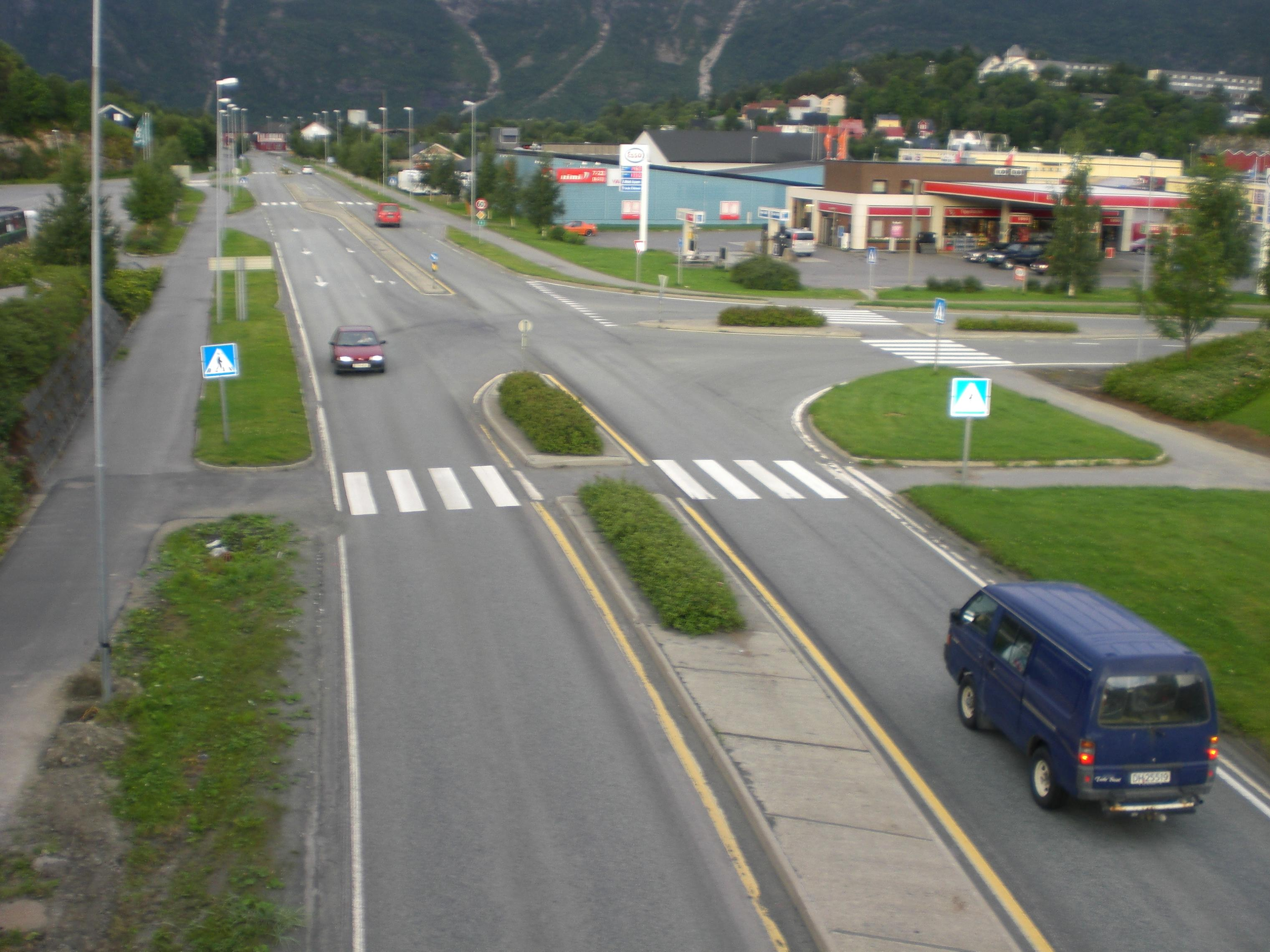 Halsøya, Mosjøen in Norway.